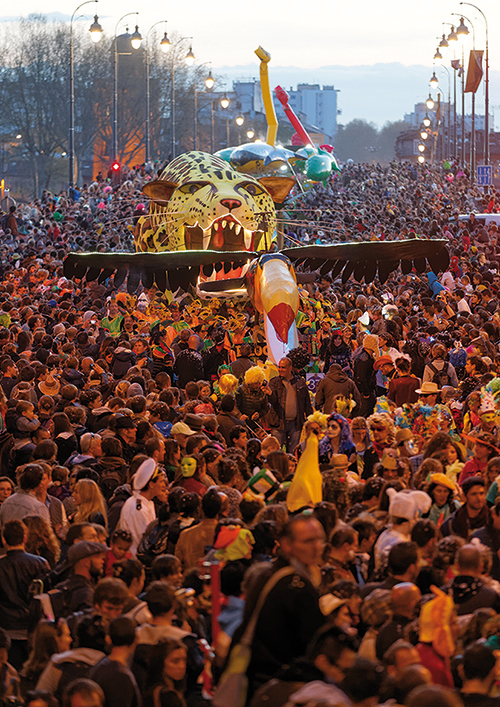 Carnaval de Toulouse 2015